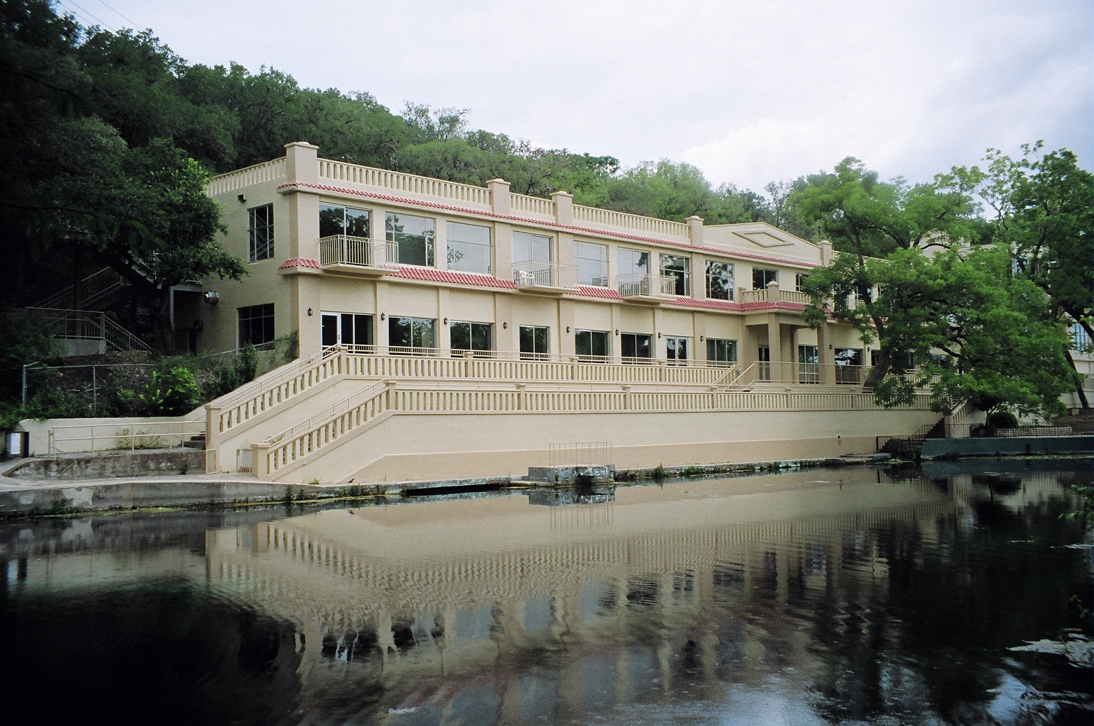 The building was a hotel built in 1928 in San Marcos, Texas, United States that was incorporated into the Aquarena Springs amusement park in 1951. Owned by Texas State University since 1994, the former hotel is now part the Meadows Center for Water and the Environment.